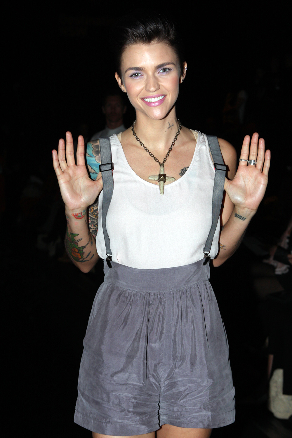 Ruby Rose